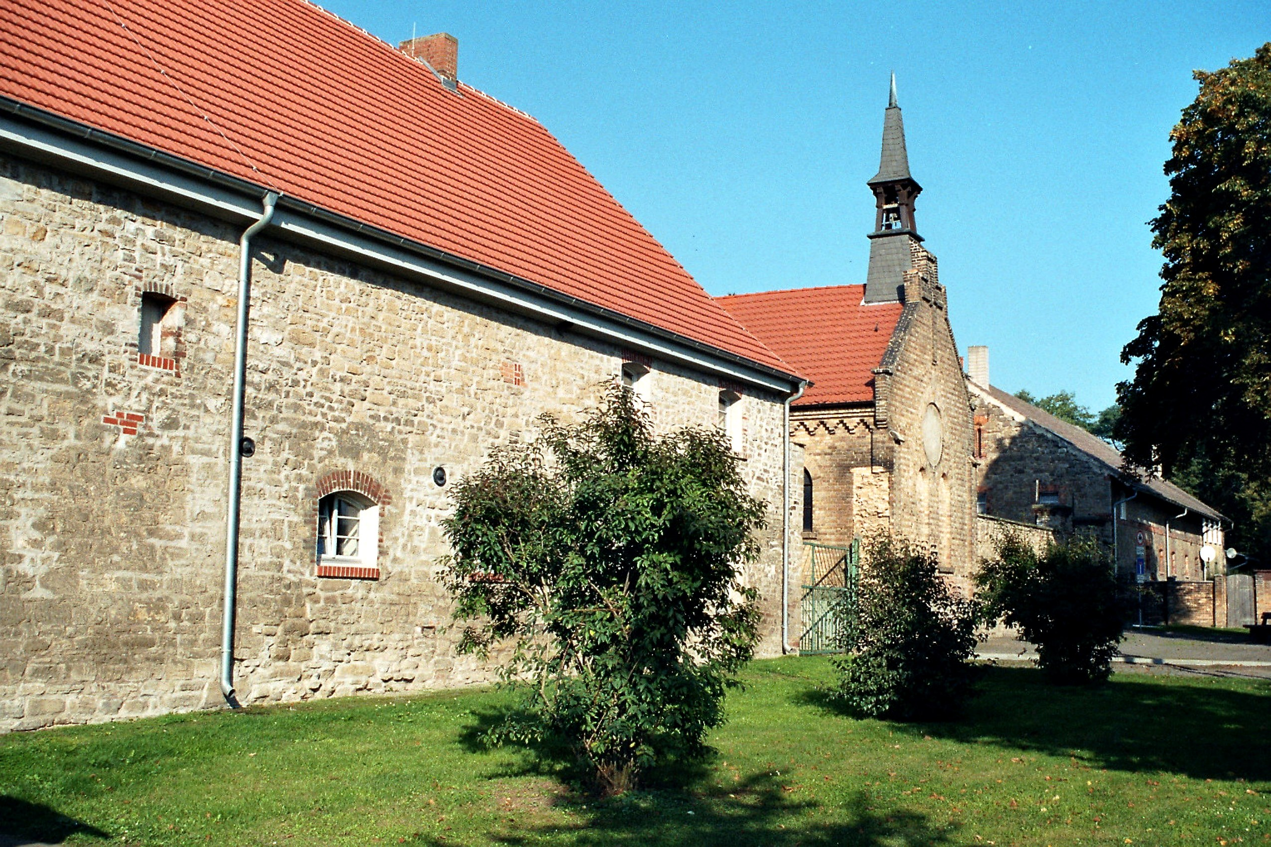 Welfesholz (Gerbstedt), the manor